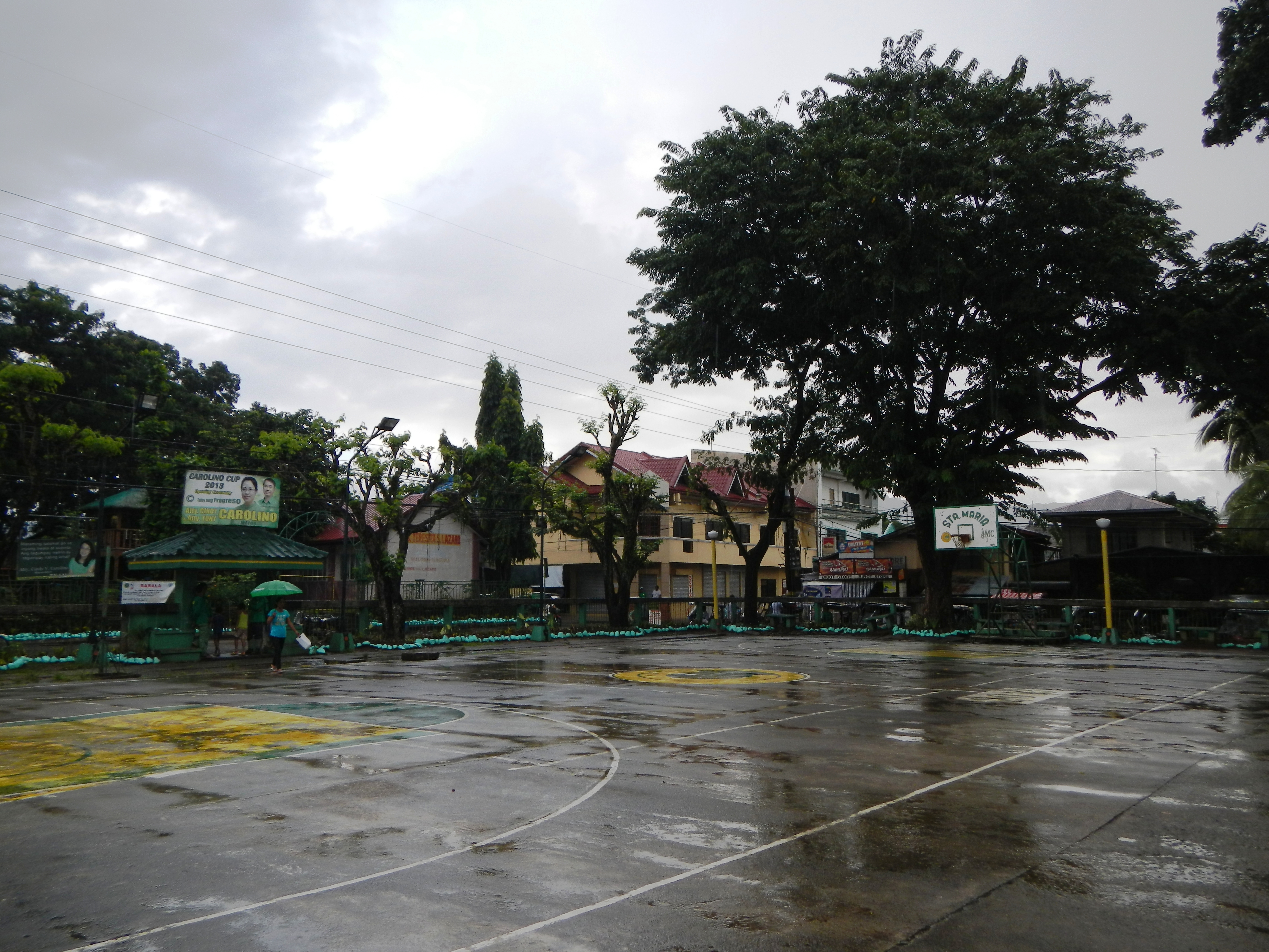 Santa Maria, Laguna town hall, the River of under the Inayapan bridge ansd downtown center of the commercial centers of the town.